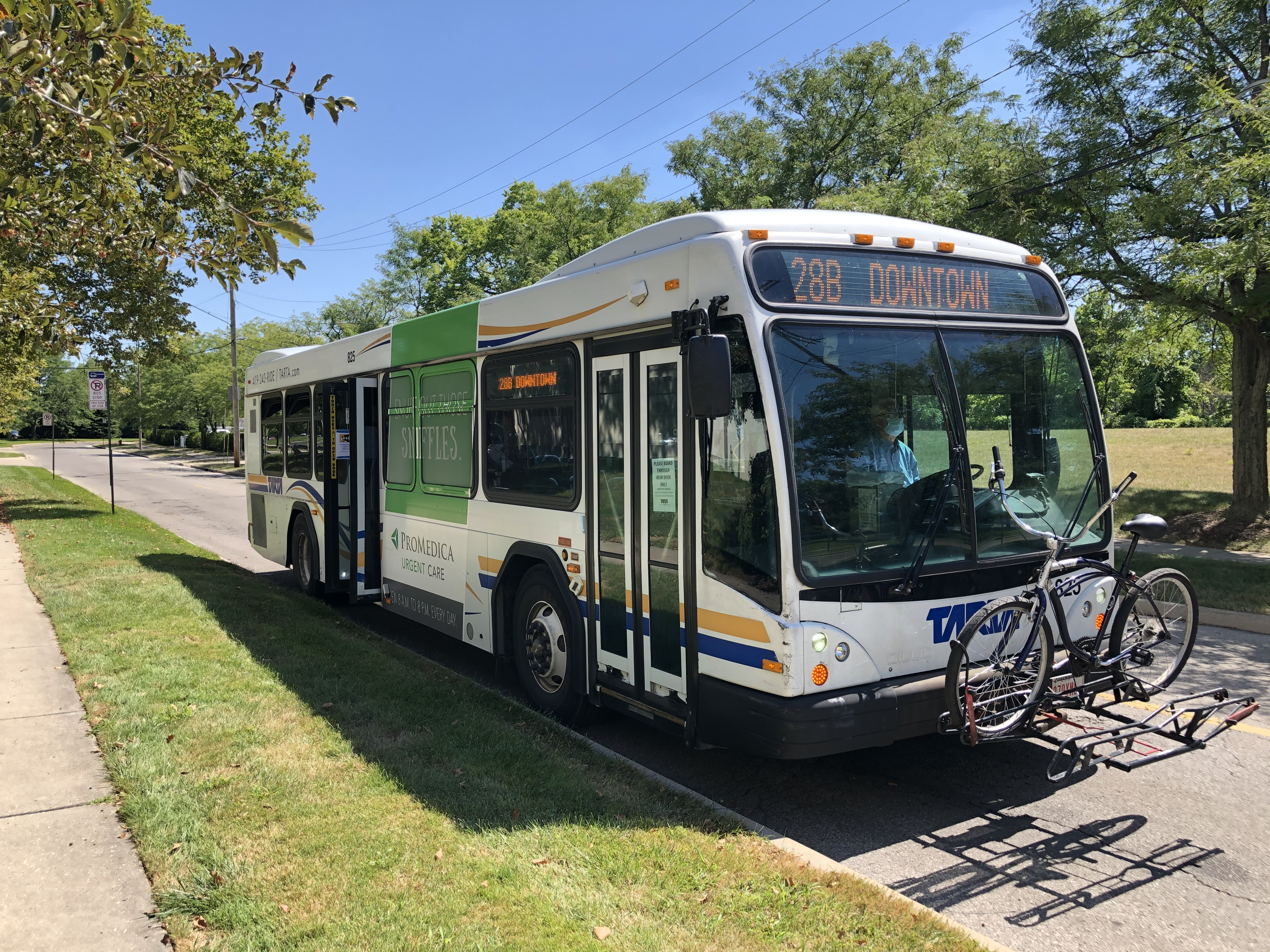 A TARTA Bus during the COVID-19 pandemic at the Toledo Museum of Art.